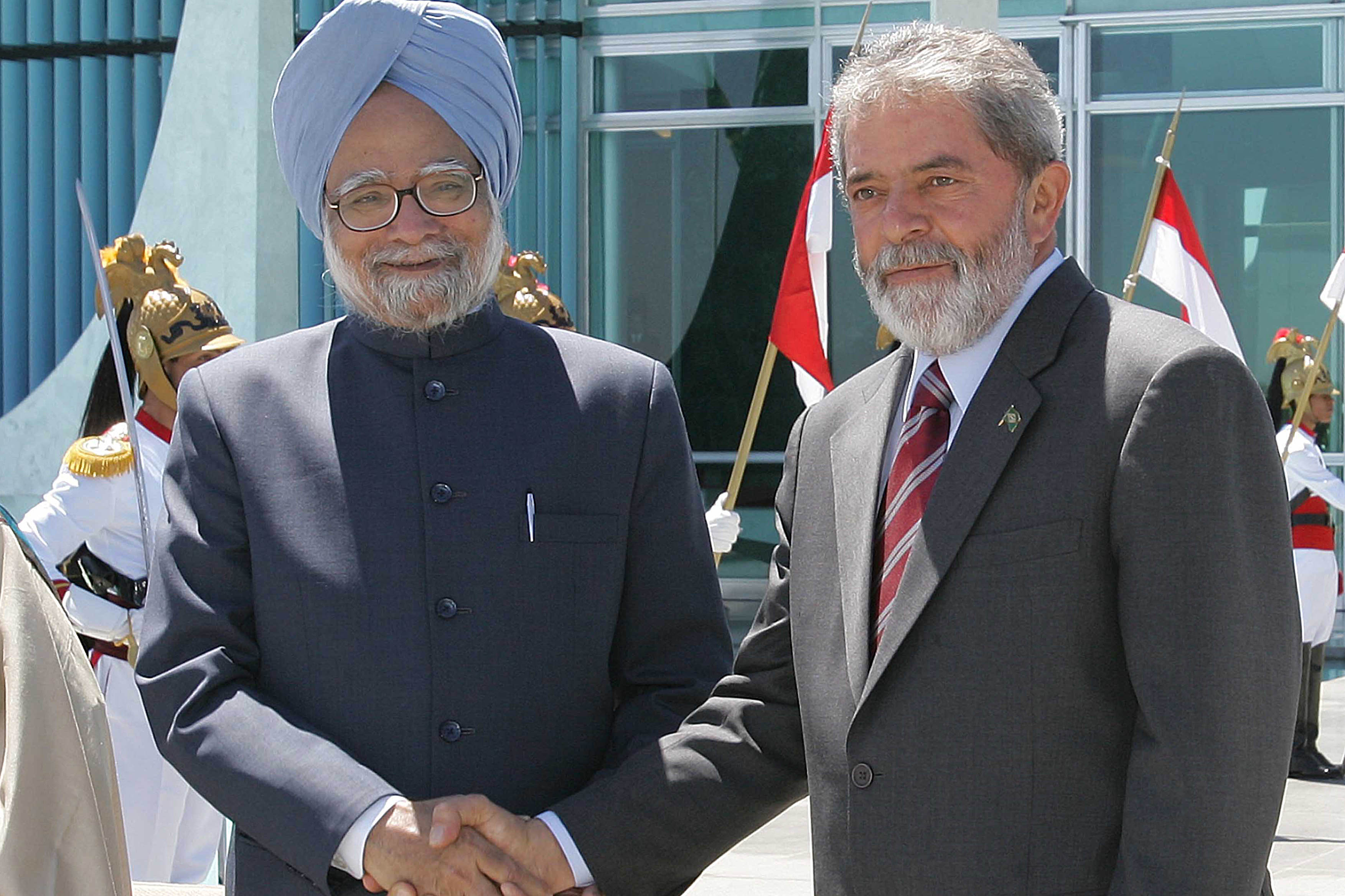 Brasília – Presidente Luiz Inácio Lula da Silva cumprimenta o primeiro-ministro da Índia, Manmohan Singh,que realiza visita oficial ao Brasil